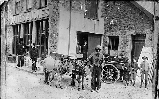 1 photograph : glass, wet collodion positive, b&w ; 12 x 16.5 cm.